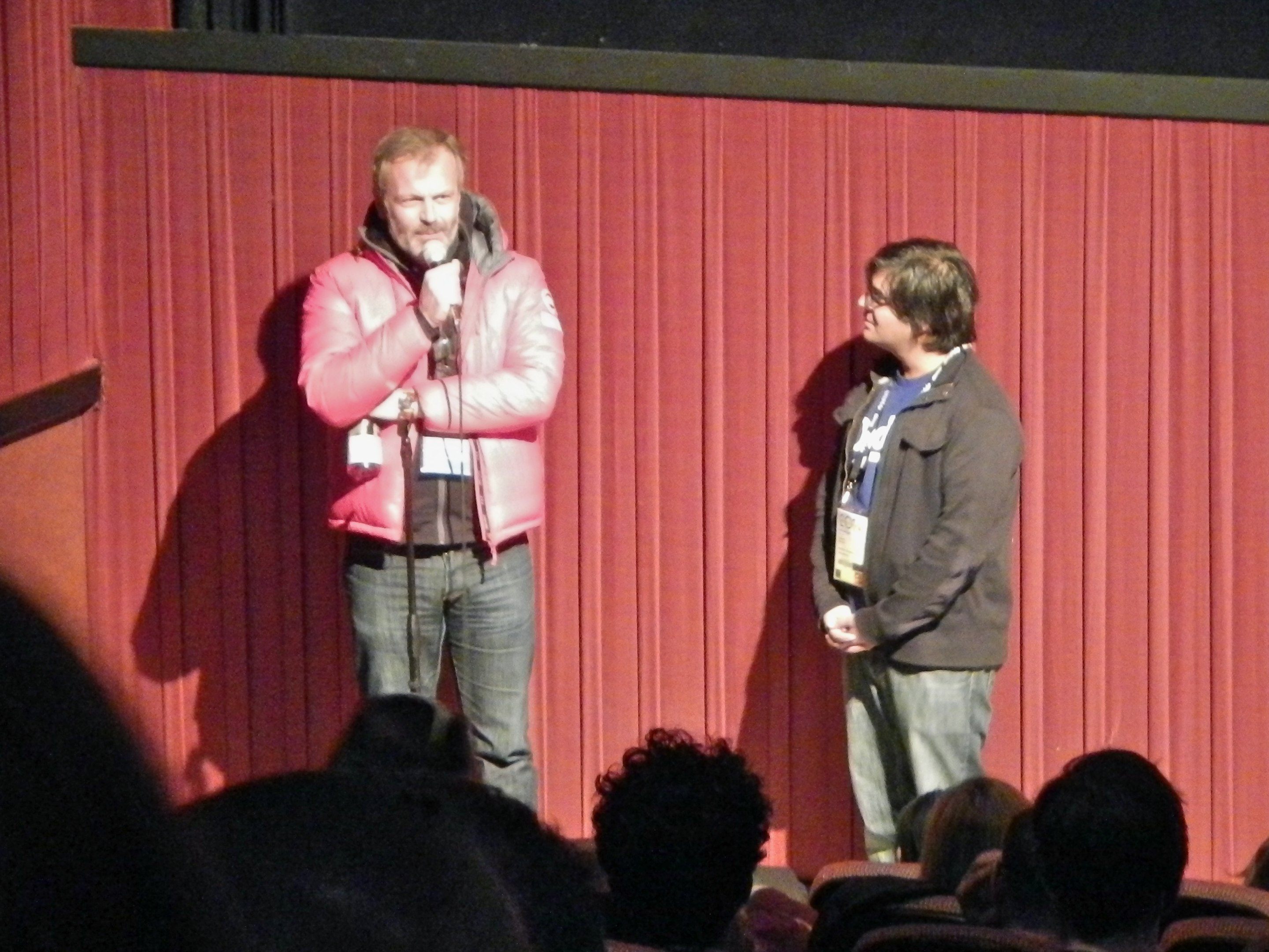 "Happiness" at Sundance 2014